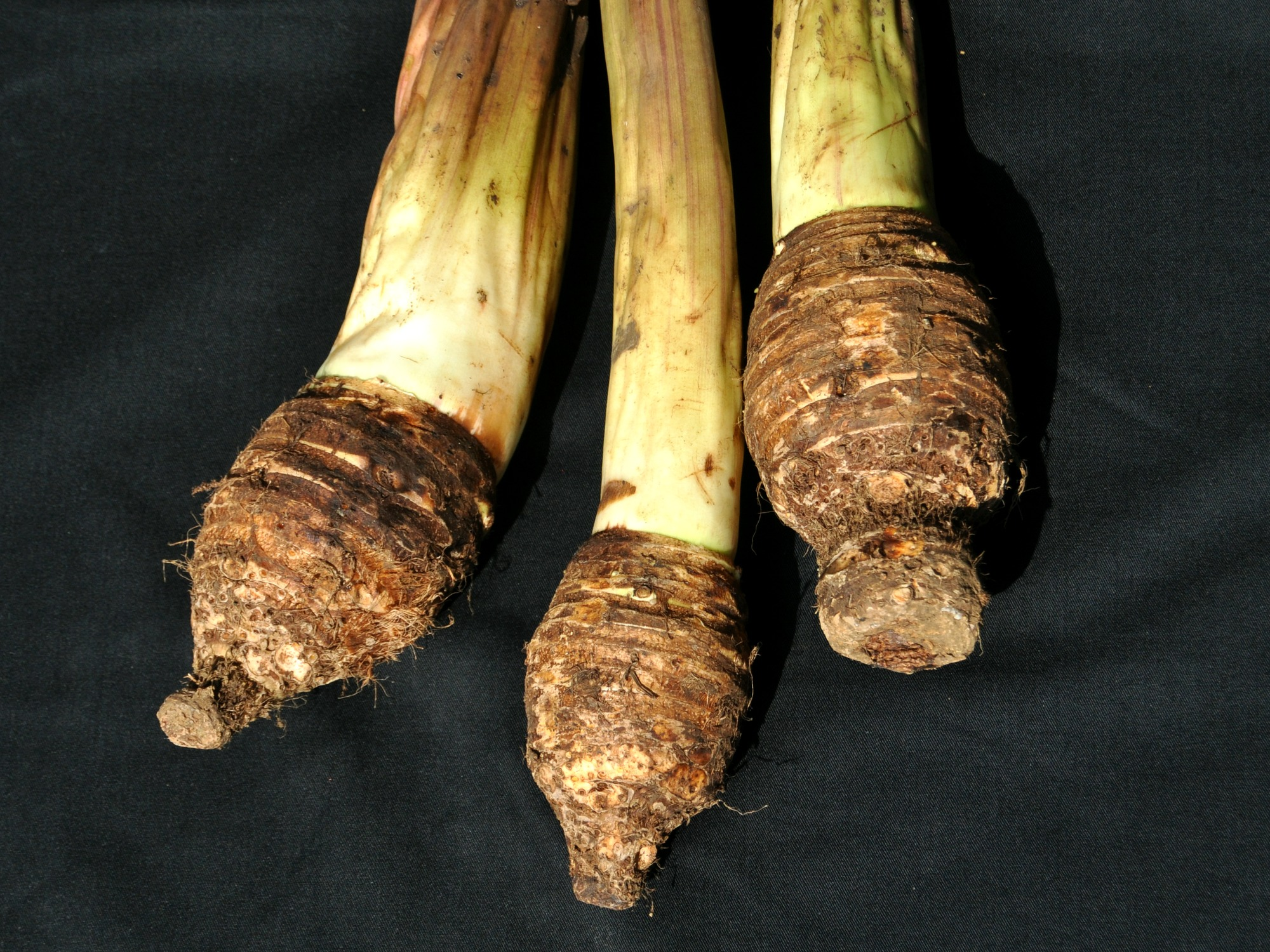 Taro, Colocasia esculenta corms. From Bogor, West Java, Indonesia.